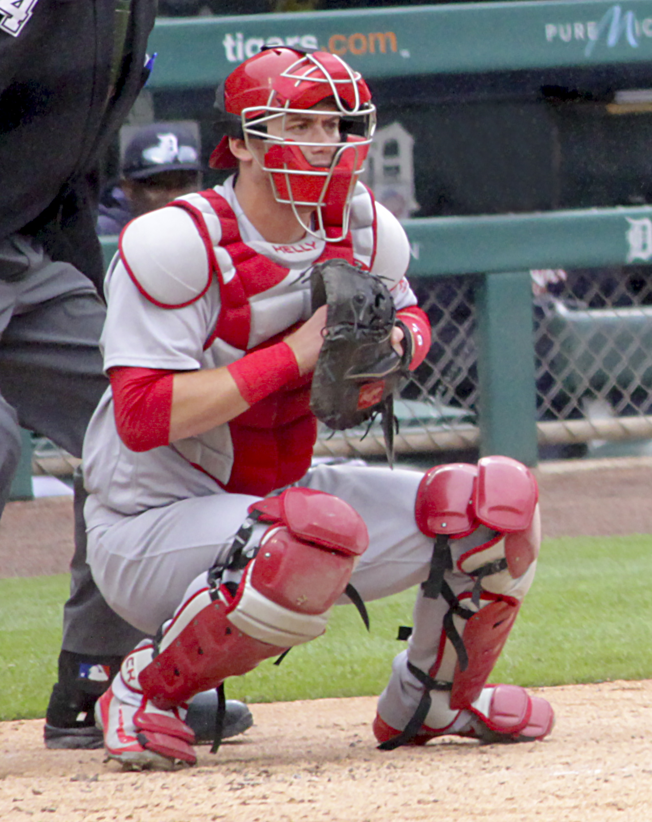 Carson Kelly playing for the st.Louis Cardinals in 2018 at Detroit.